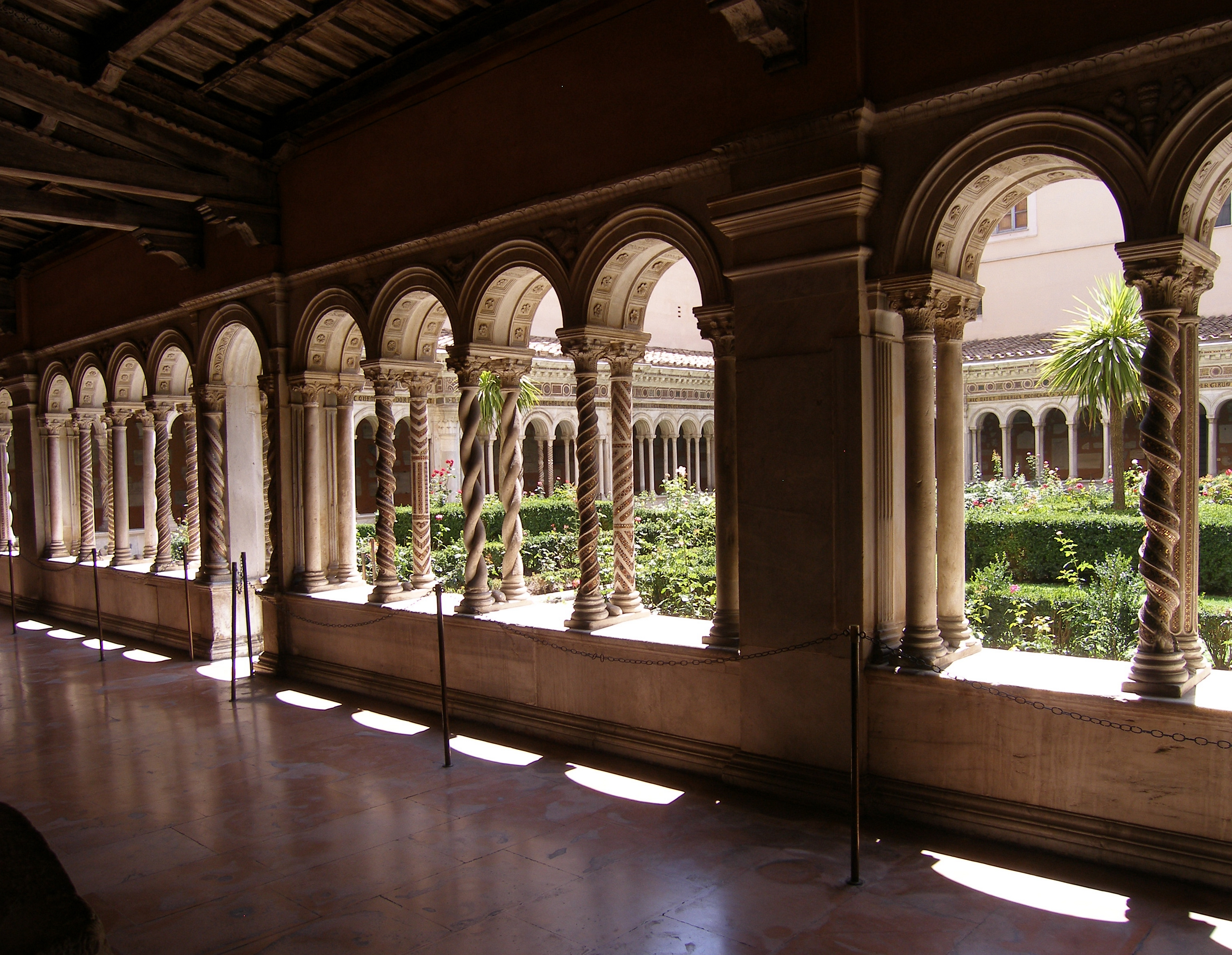 Rome, Saint Paul Outside the Walls, cloister